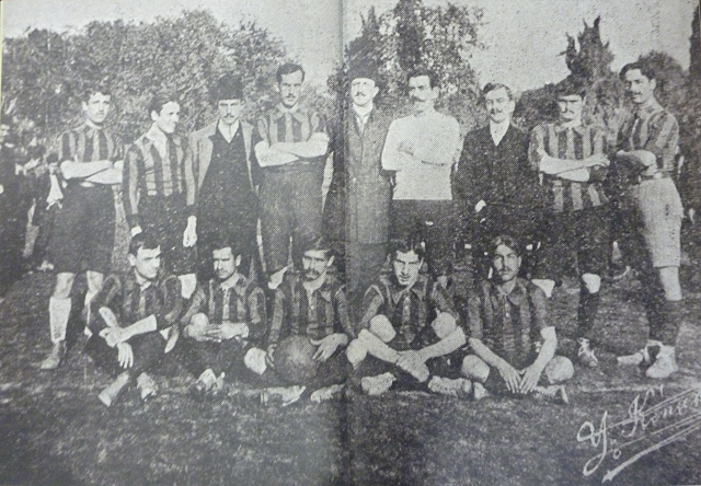 Fenerbahce in 1908